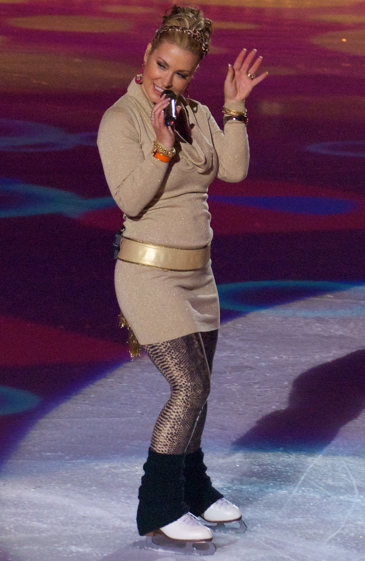 Anastacia live at Hallenstadion.